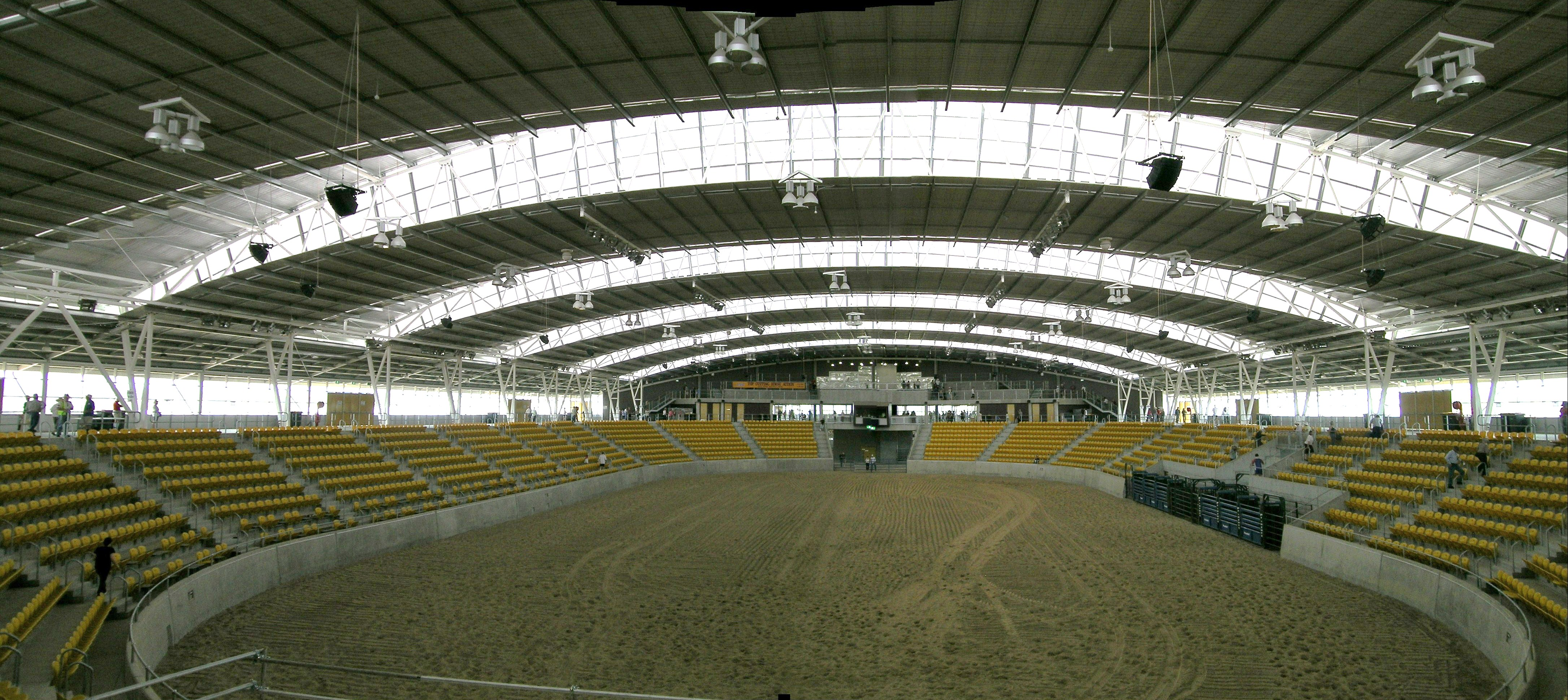 AELEC indoor arena, Tamworth, NSW. The six rough riding chutes are on the right.